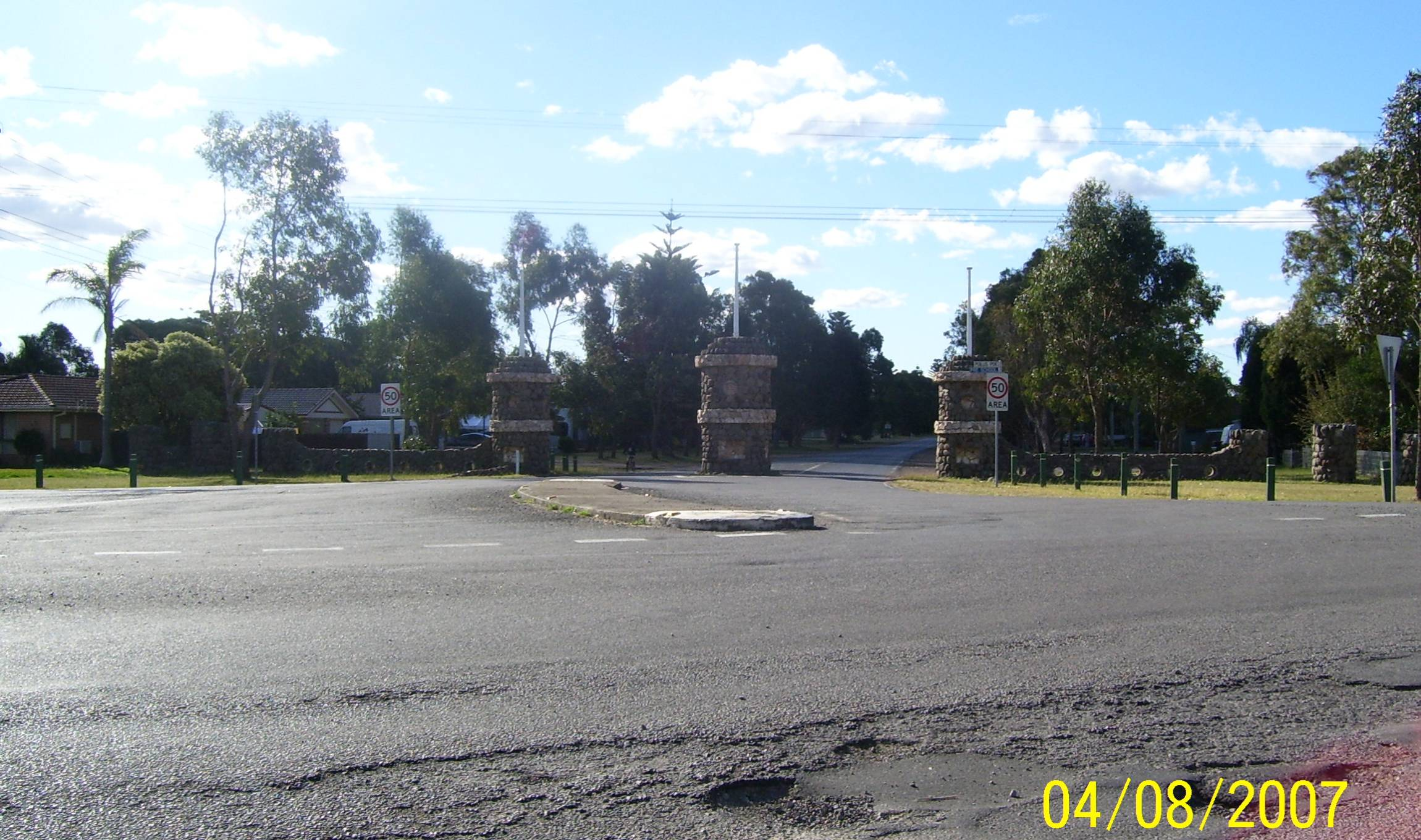 Main entrance to Tanilba Bay, New South Wales from Lemon Tree Passage Road